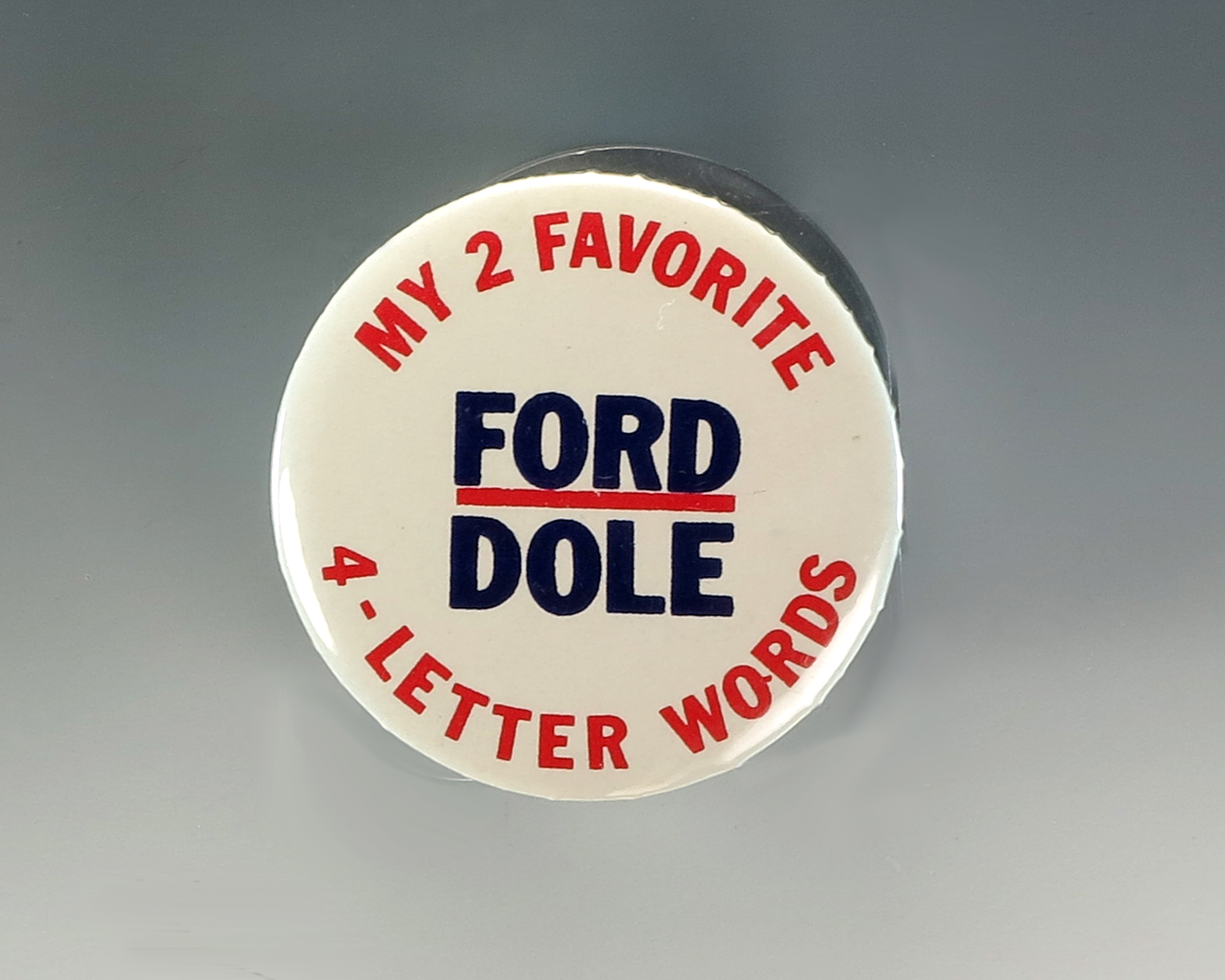 White colored campaign button from Gerald R. Ford’s 1976 presidential campaign. Text on the button reads, “My 2 favorite / 4-letter words / Ford / Dole.”